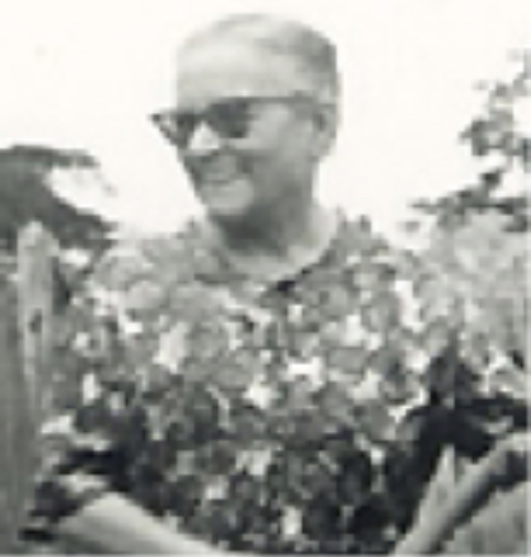 Lucia Schiavinato (1900-1976)